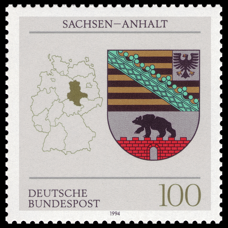 Coats of arms of the 16 states of Germany Ausgabepreis: 100 Pfennig First Day of Issue / Erstausgabetag: 16. Juni 1994 Michel-Katalog-Nr: 1714 Designer: Jünger